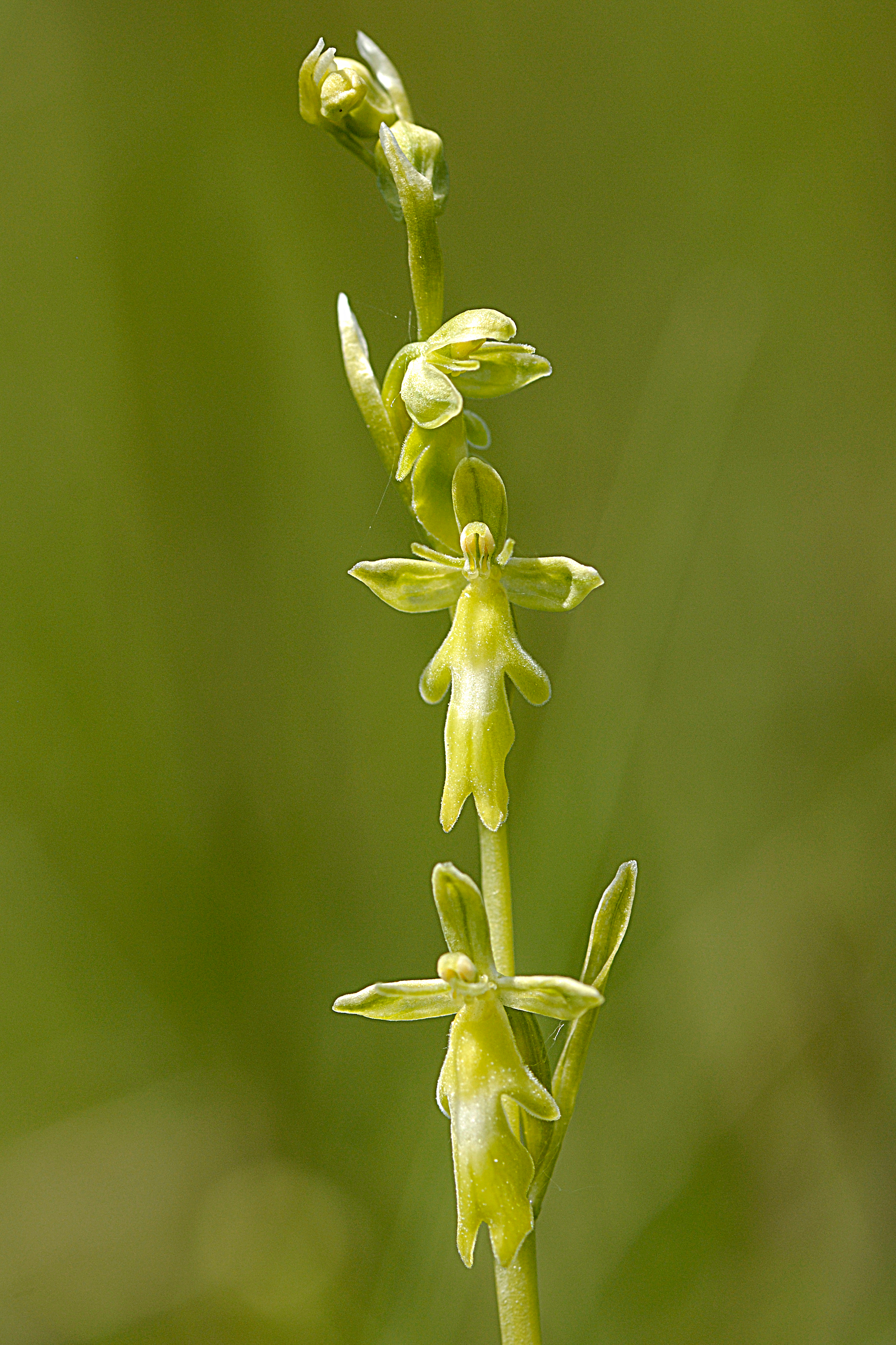 ´´Ophrys insectifera´´ var. ´´ochroleuca´´, corrected from var. ´´virescens´´, photographed at the Kuttenberg, near Eschweiler, Münstereifel, Germany, sharpened